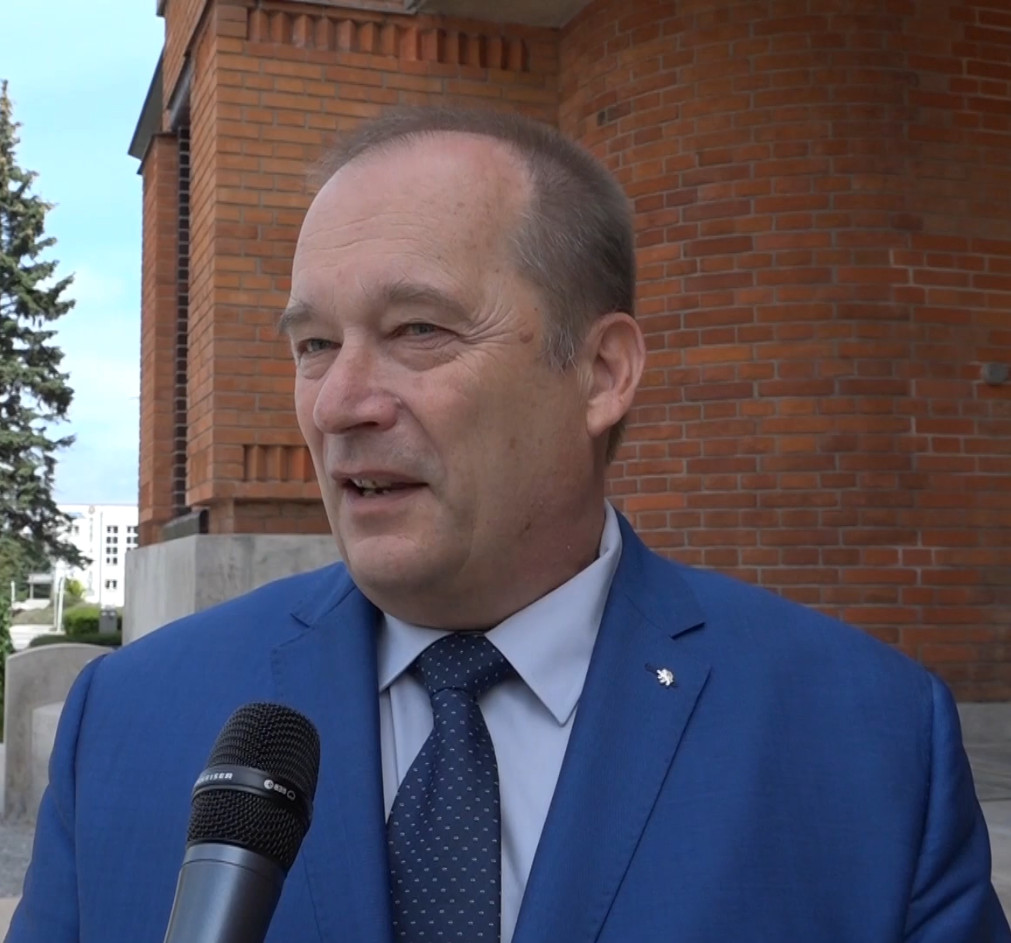 Mayor of Hradec Králové Alexandr Hrabálek giving an interview about the reconstruction of East Bohemian Museum on May 21st 2019.